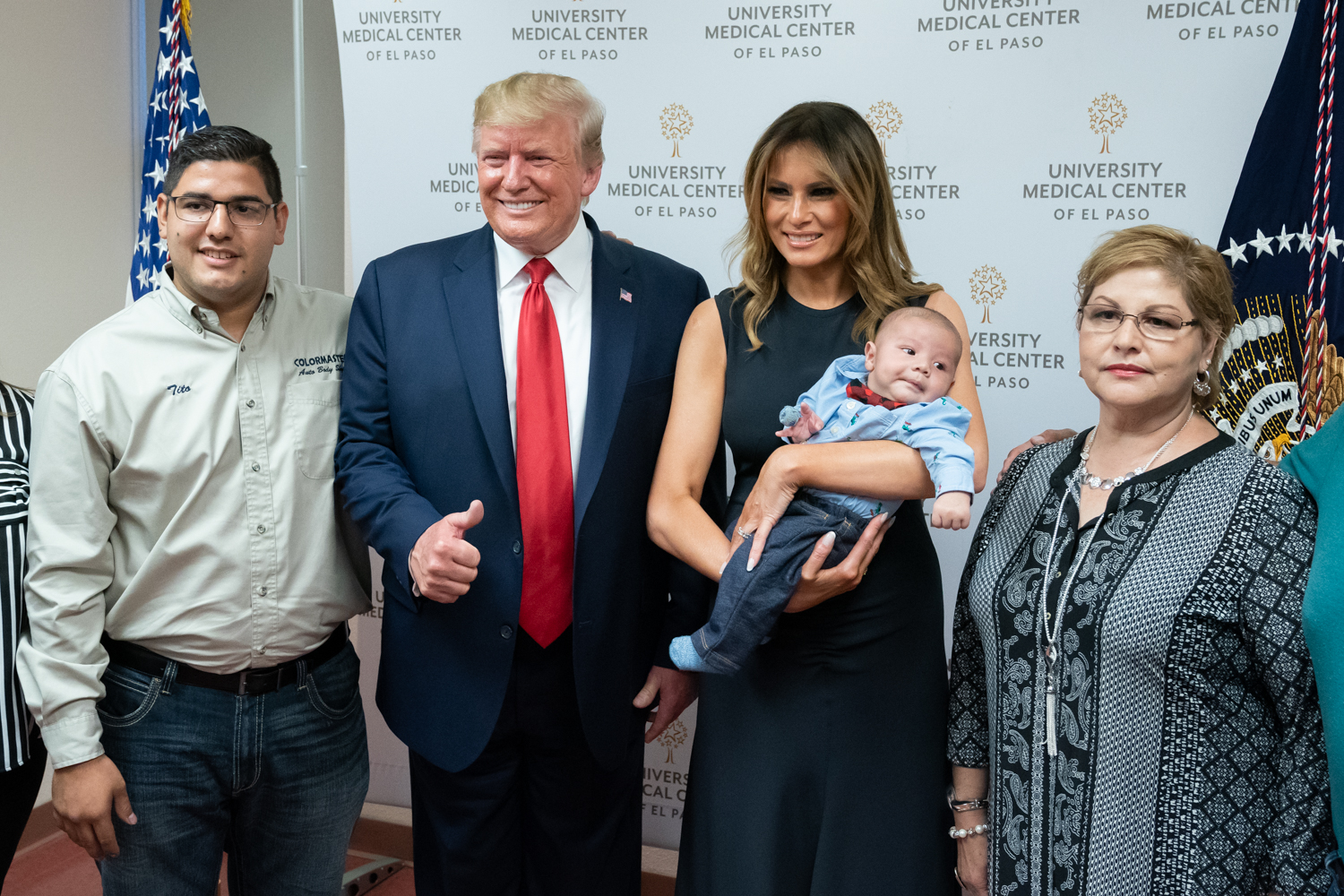 First Lady Melania Trump holds the two-month-old son of Jordan and Andre Anchondo, as she and President Donald J. Trump pose for photos and meet members of the Anchondo family Wednesday, Aug. 7, 2019, at the University Medical Center of El Paso in El Paso, Texas. Jordan and Andre Anchondo were among the 22 people killed in a mass shooting Saturday at a Walmart in El Paso. (Official White House Photo by Andrea Hanks)